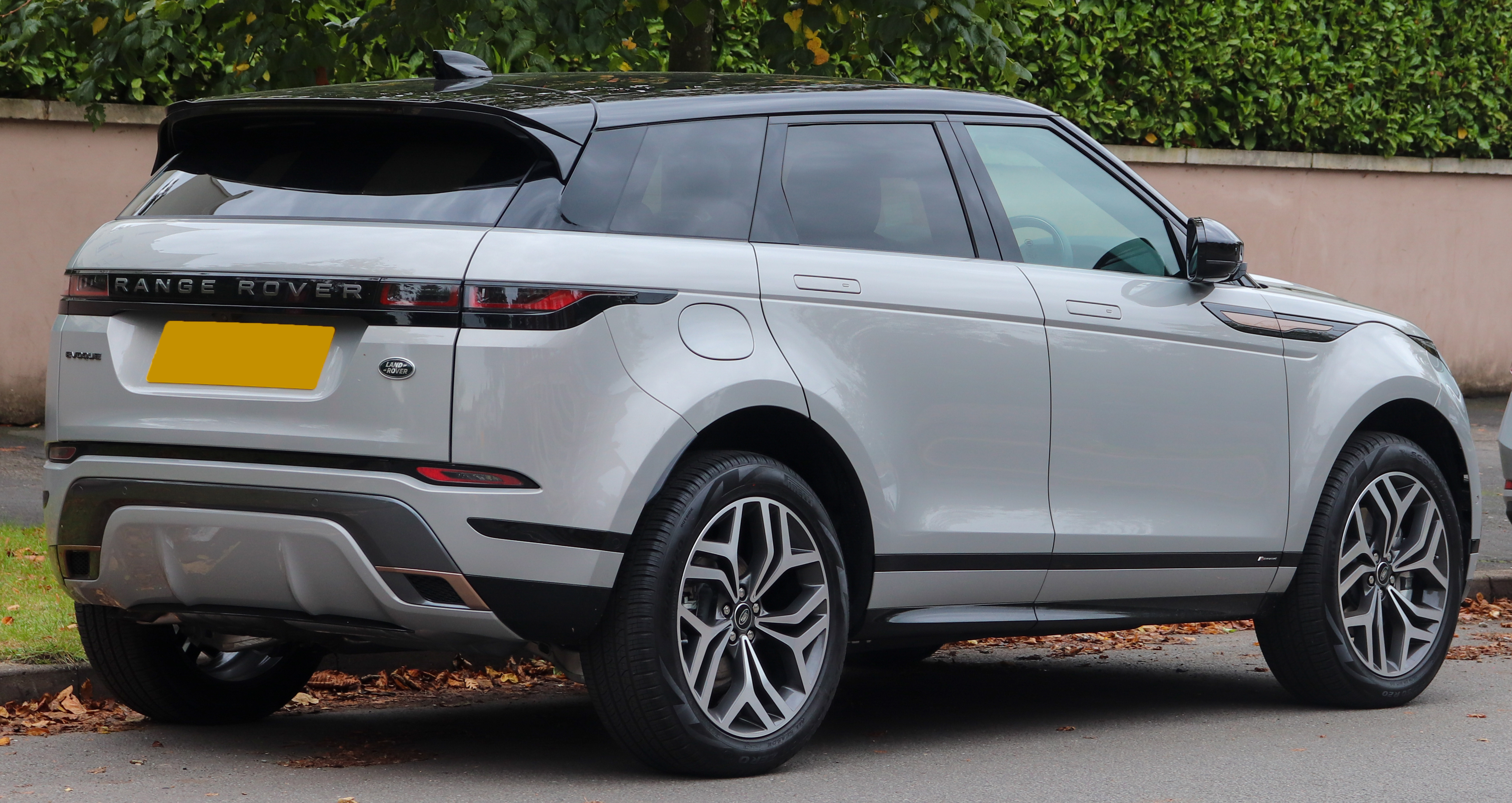 2019 Land Rover Range Rover Evoque First Edition D180 Automatic 2.0 Rear Taken in Leamington Spa